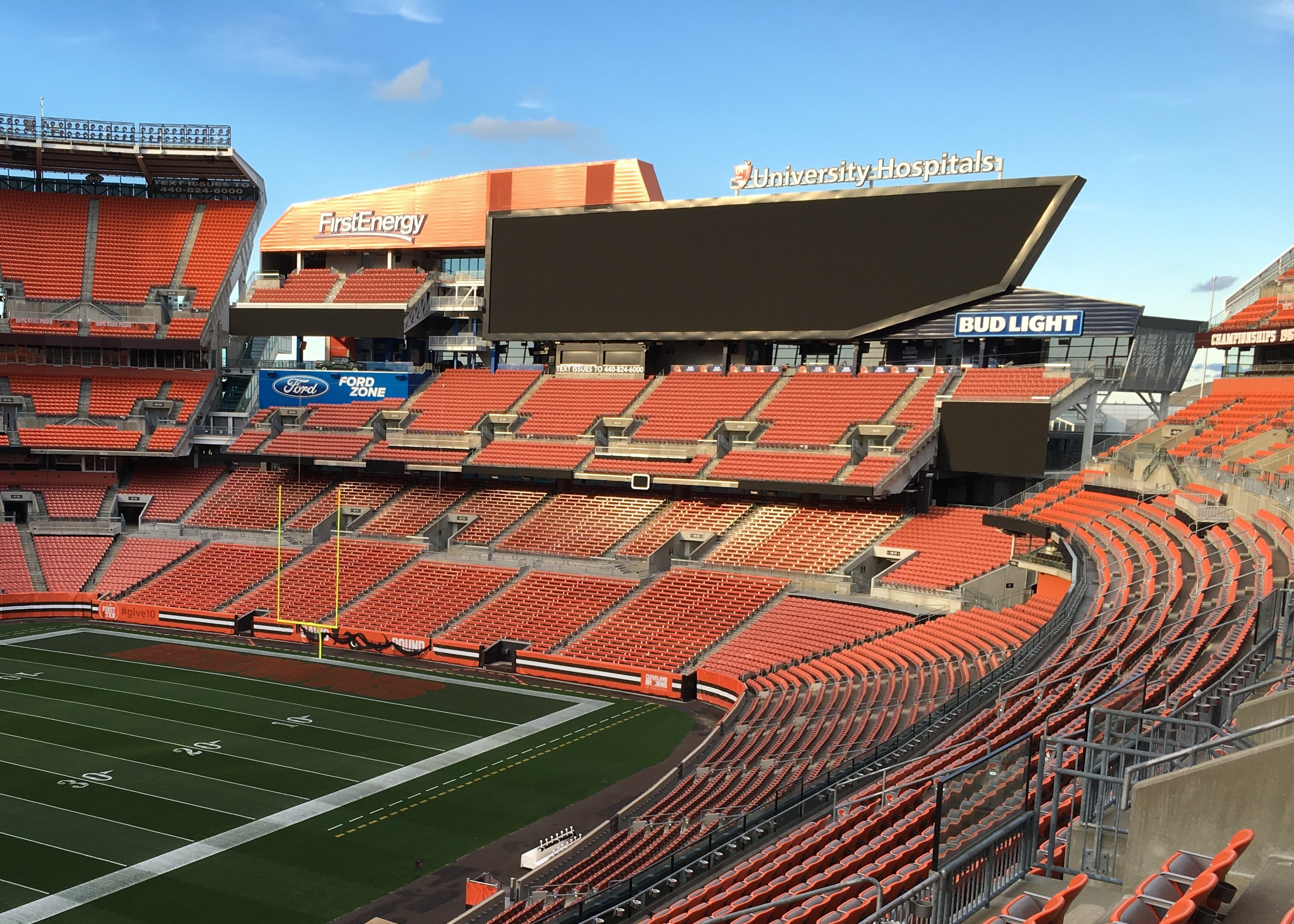 View of the east end zone at FirstEnergy Stadium in Cleveland, Ohio, United States. The section is commonly known as the Dawg Pound.